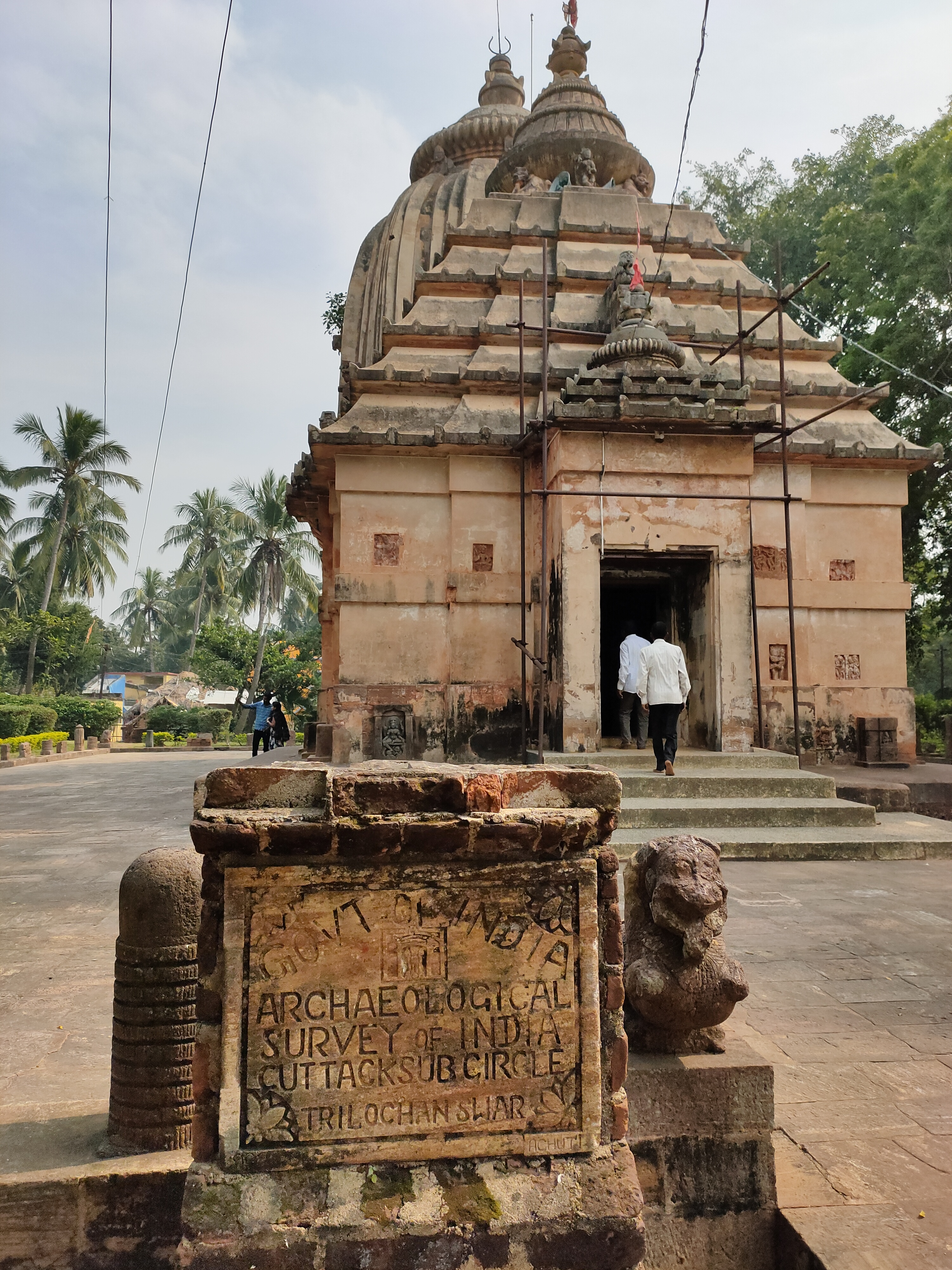 Trilochaneswar Temple